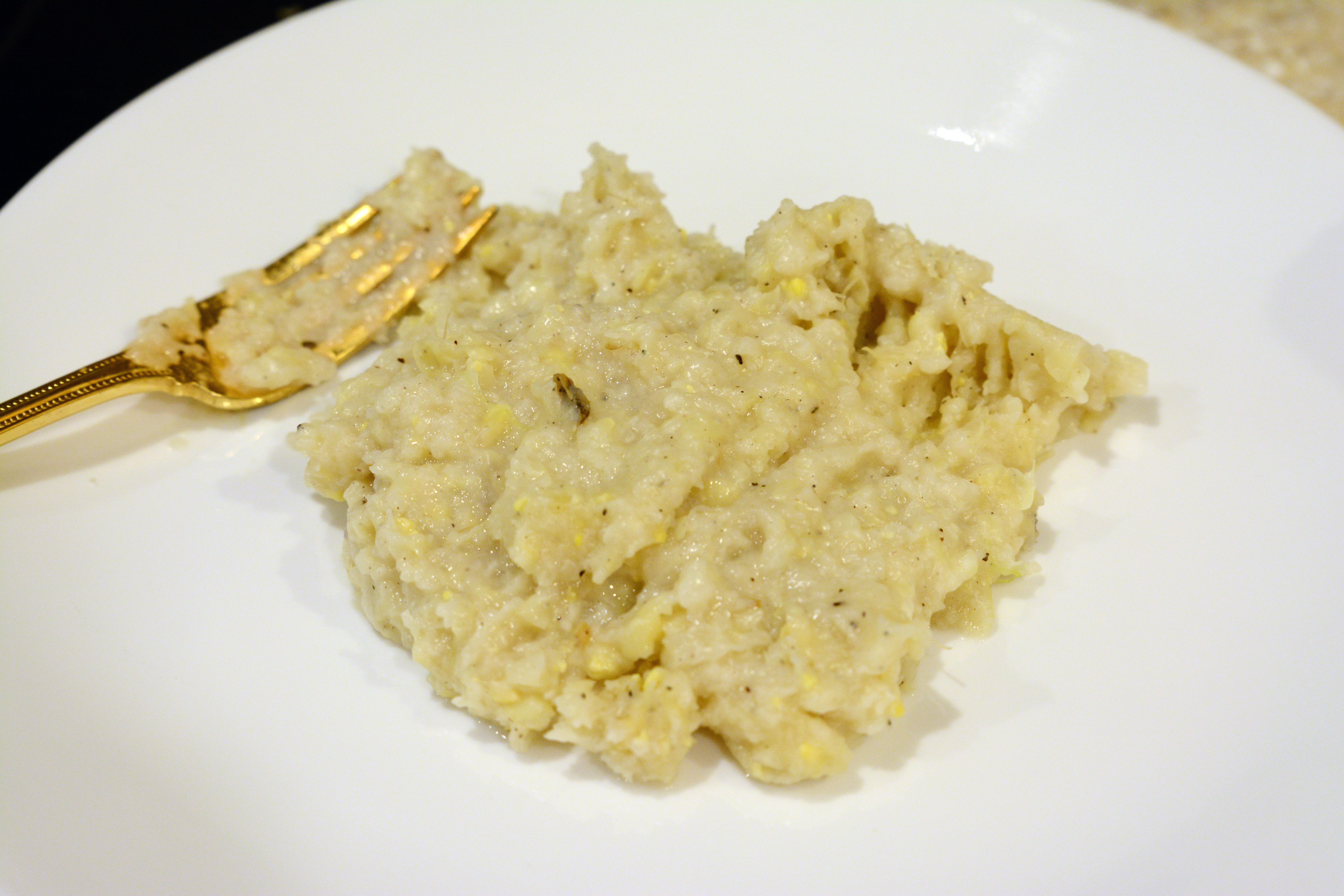 reamed corn on the plate